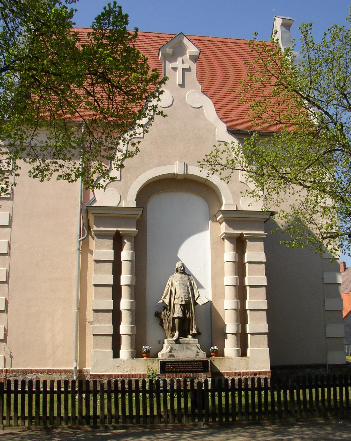 Paul Gerhardt House in Gräfenhainichen in Saxony-Anhalt, Germany